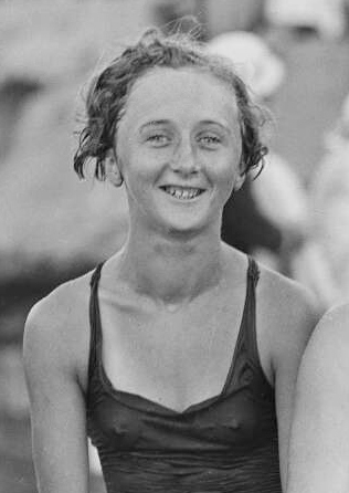 Swimmer Pat Norton sitting on a wooden beam over a swimming pool, New South Wales, 13 March 1933